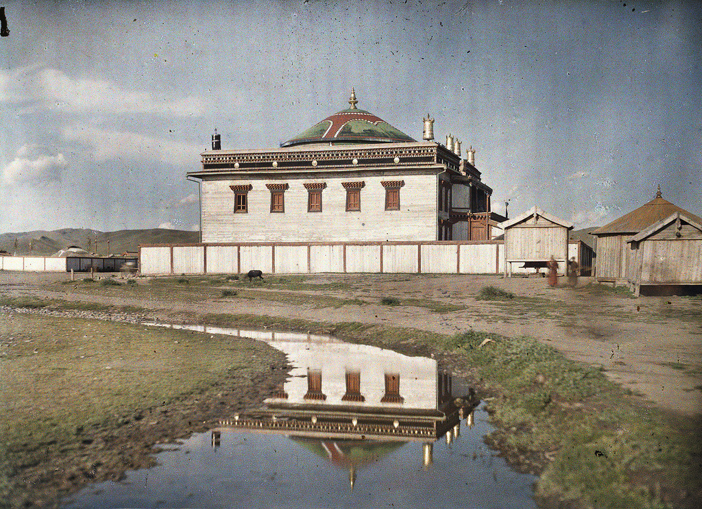 The Maidar temple, in Urga, Mongolia. July, 1913. Autochrome.